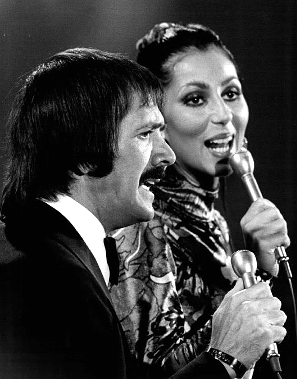 Publicity photo of Sonny and Cher for their TV show.